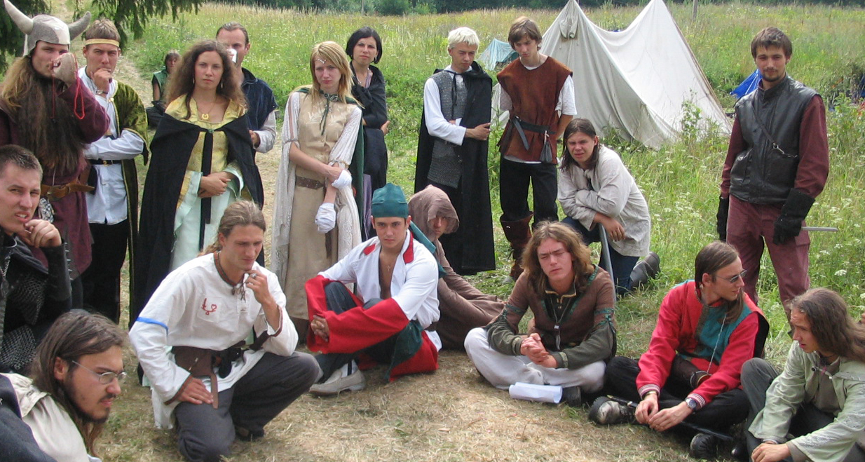 A contest for candidates to the imperial throne is about to begin at a live action role-playing game BBRI4 in Visaginas, Lithuania (July 27-30, 2006).